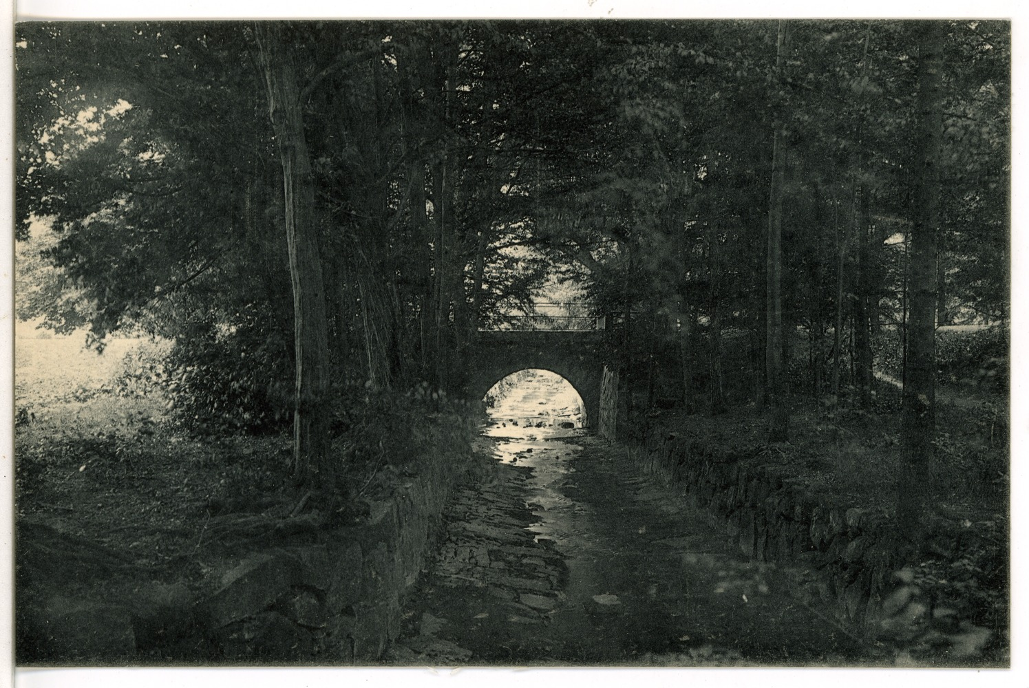 This postcard is from publisher Brück & Sohn in Meißen ( This postcard has a unique number 16499 and is available in a higher resolution at the publisher. This images was uploaded in a cooperation project between Wikipedians and the publisher.